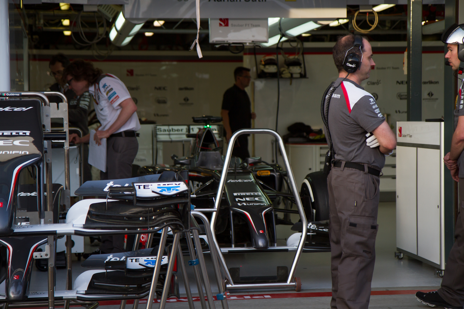 2014 Australian F1 Grand Prix